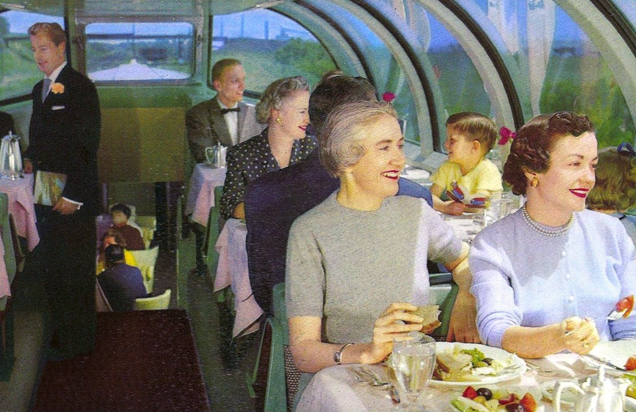 Postcard photo of the Union Pacific Railroad City of Portland's Astra-Dome equipped dining car.